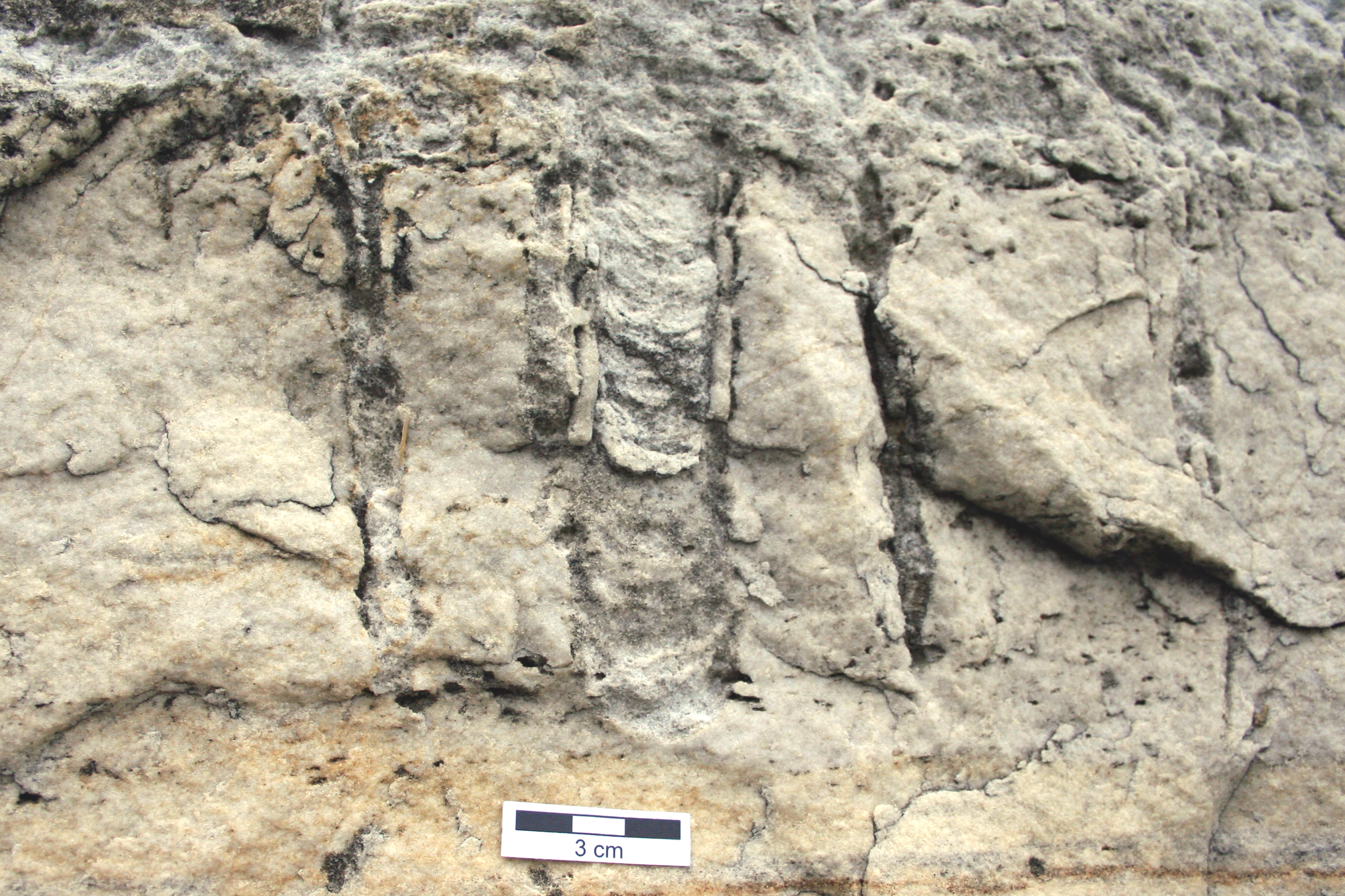 Diplocraterion in the upper Potsdam Sandstone (Cambrian) near Chippewa Bay, NY